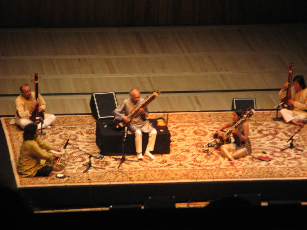 Ravi and Anoushka Shankar at a Festival of Indian Music to celebrate 60 years of Independence at the Royal Festival Hall